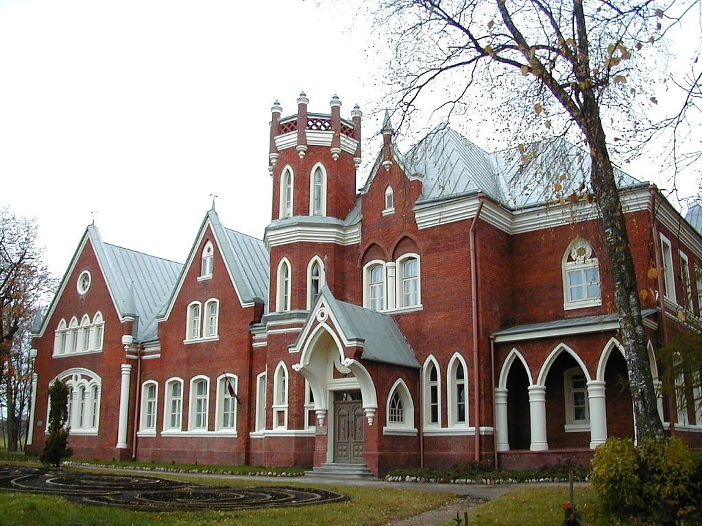 Červonka (Vecsaliena) manor house in 2000.